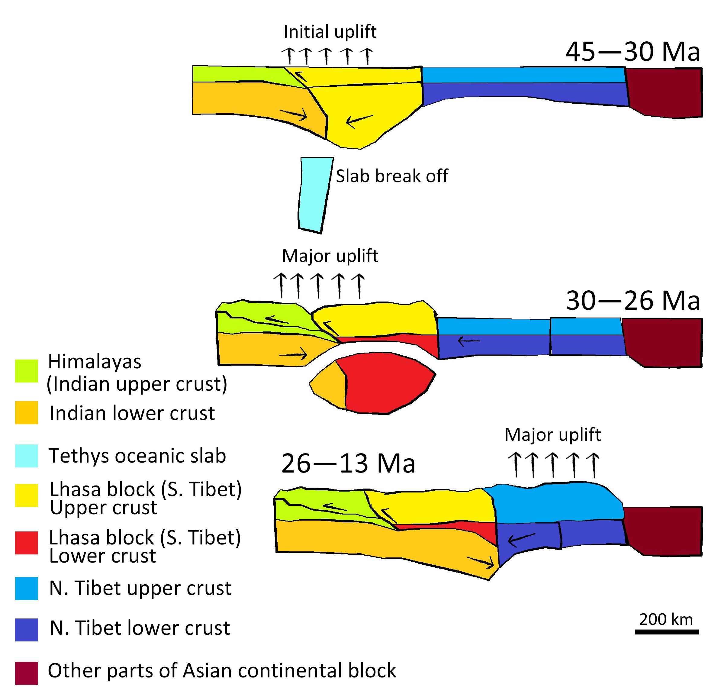 Crustal thickening during the collision onset